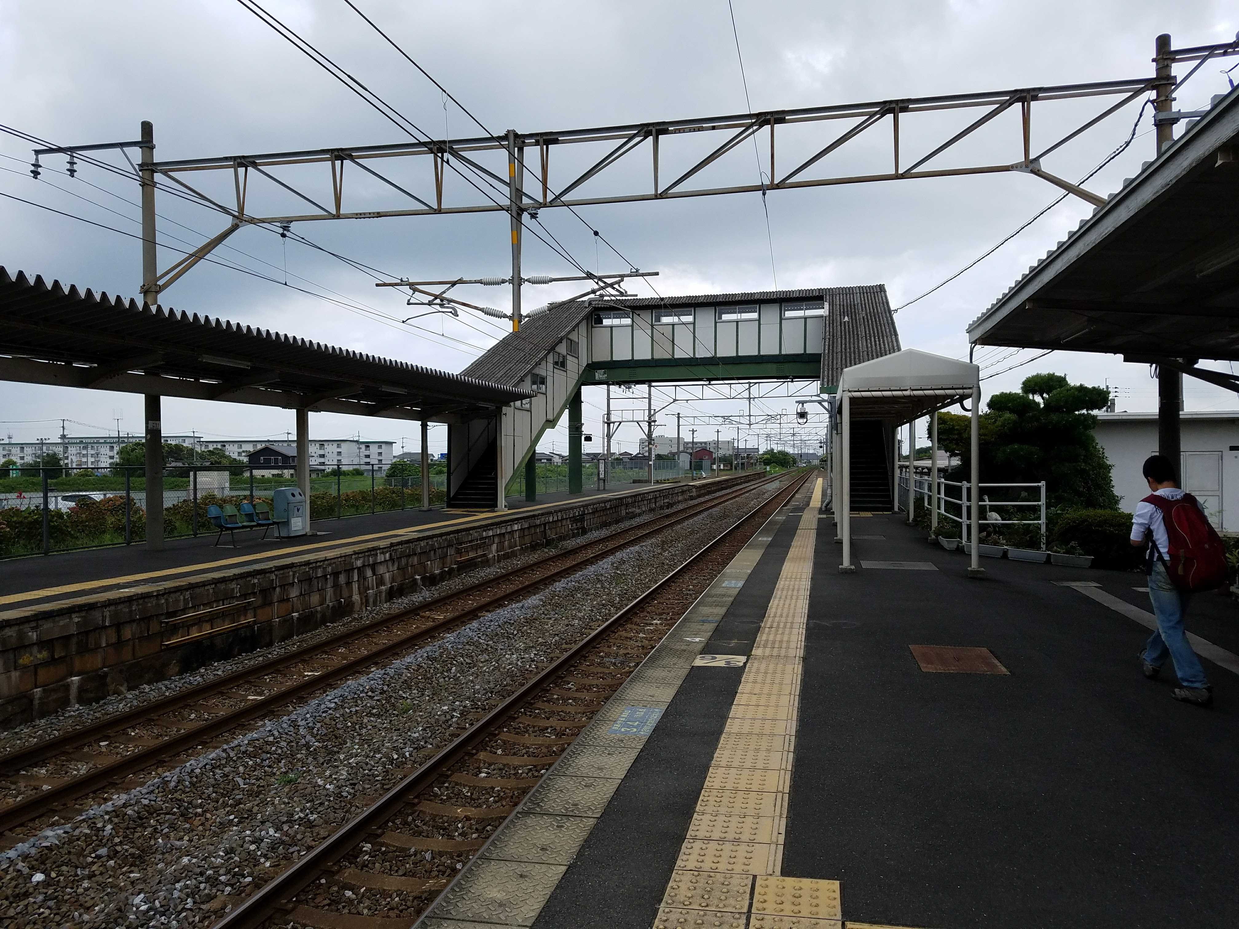 Pedestrian overpass at Tsuiki Station (築城駅) in 2017.